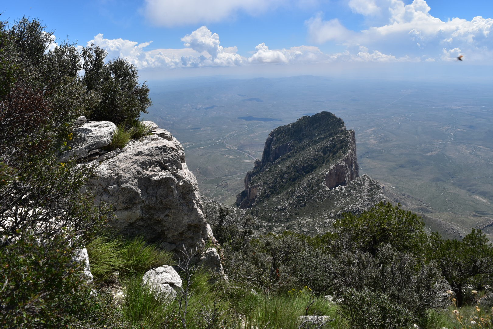 The view from Guadalupe Peak towards South.